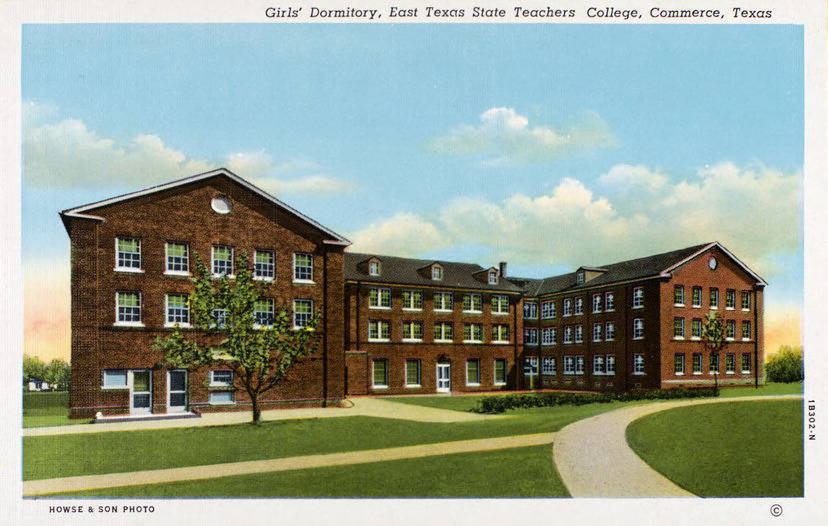 Postcard of the Girls Dormitory building at East Texas State Teachers College in Commerce.